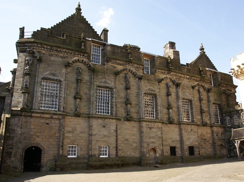 Stirling Castle, Stirling, Scotland - palace